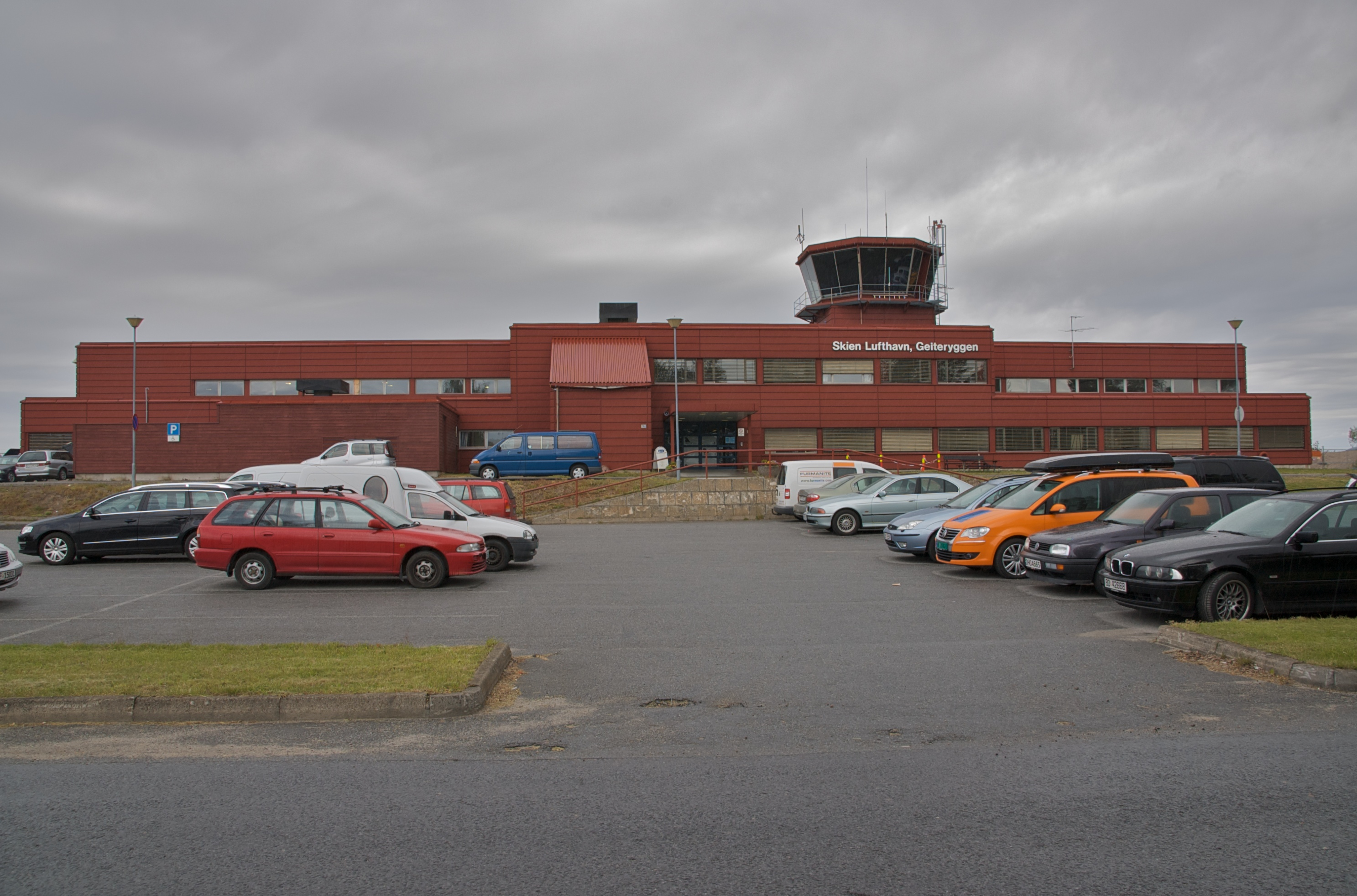 Terminal building at Skien airport - Geiteryggen.